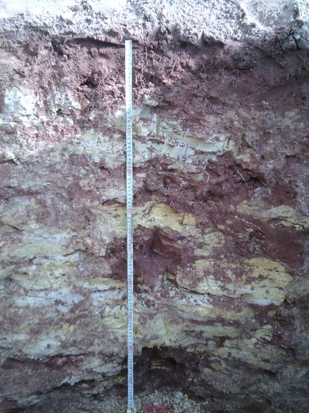 Lithic Leptosol in Agbe Ethiopia profile